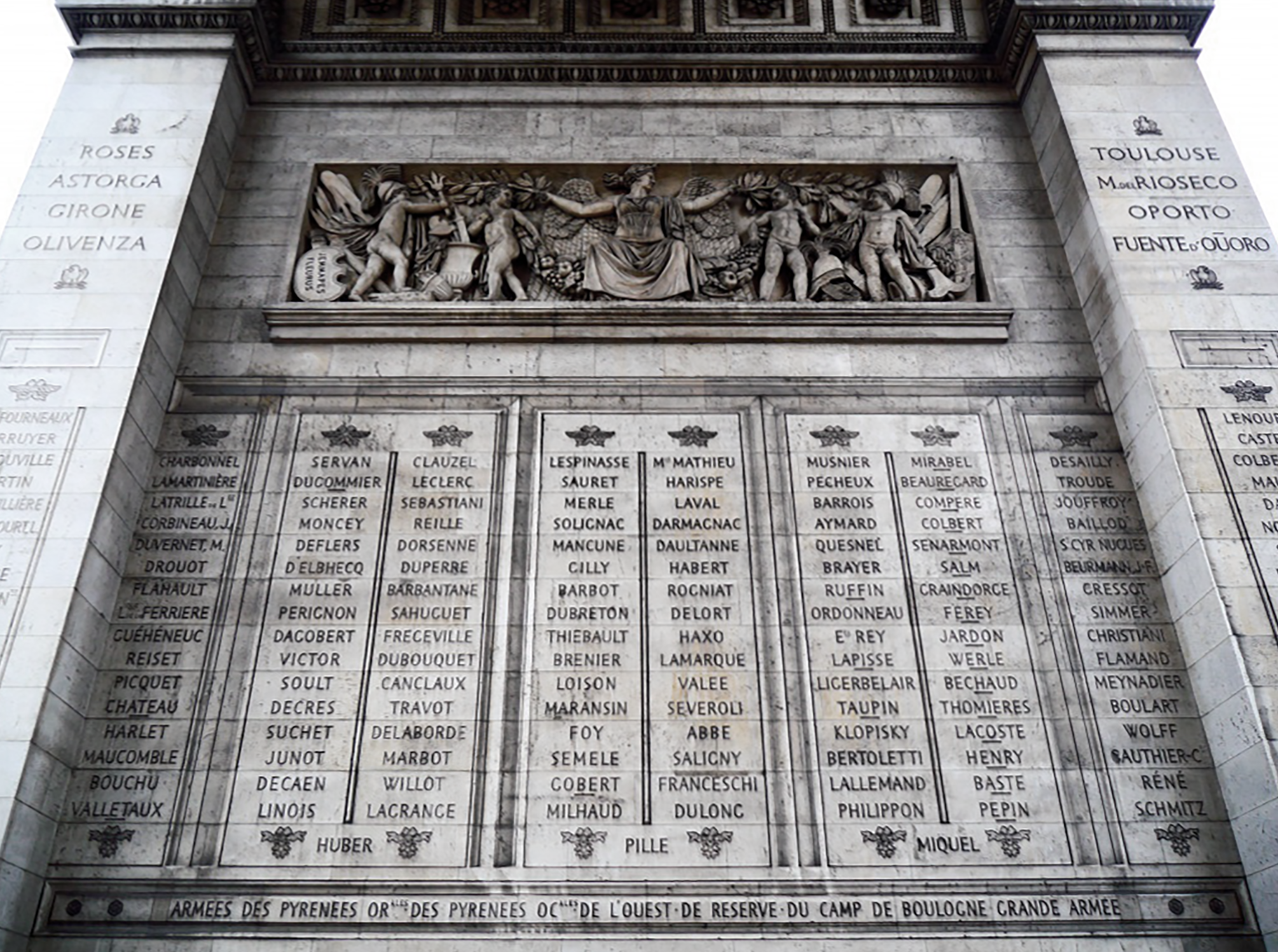 The name of General Jean Antoine Marbot (1754-1800) on the Arc de Triomphe in Paris